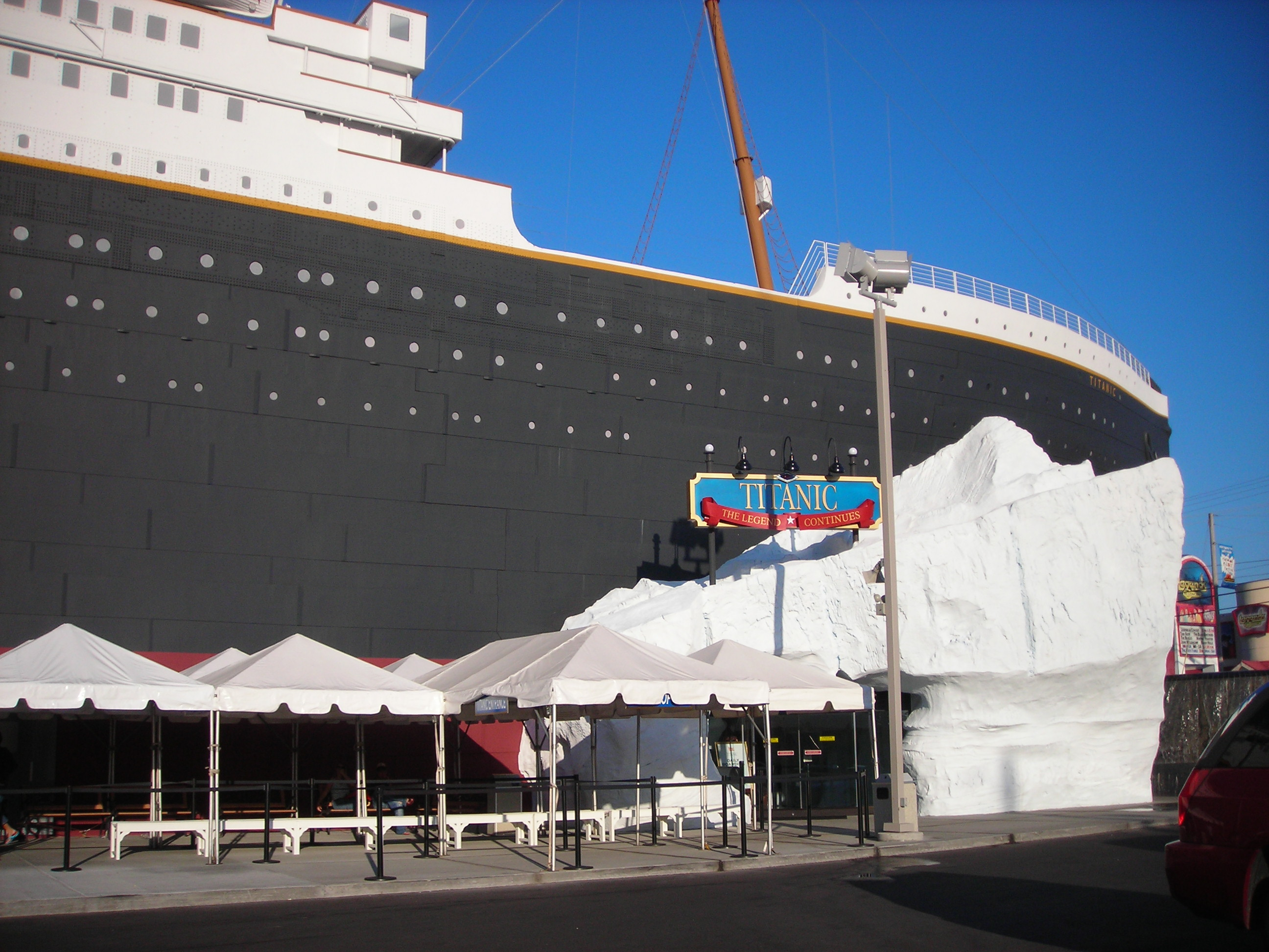 Outside of the Titanic Museum in Branson, Missouri. The building is shaped to look like the Titanic